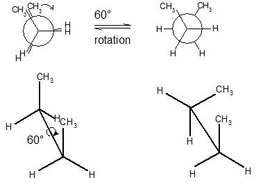 60 degrees rotation about single bond of butane to interconvert one conformer to another. Above: Newman projection; below: depiction of spatial orientation.